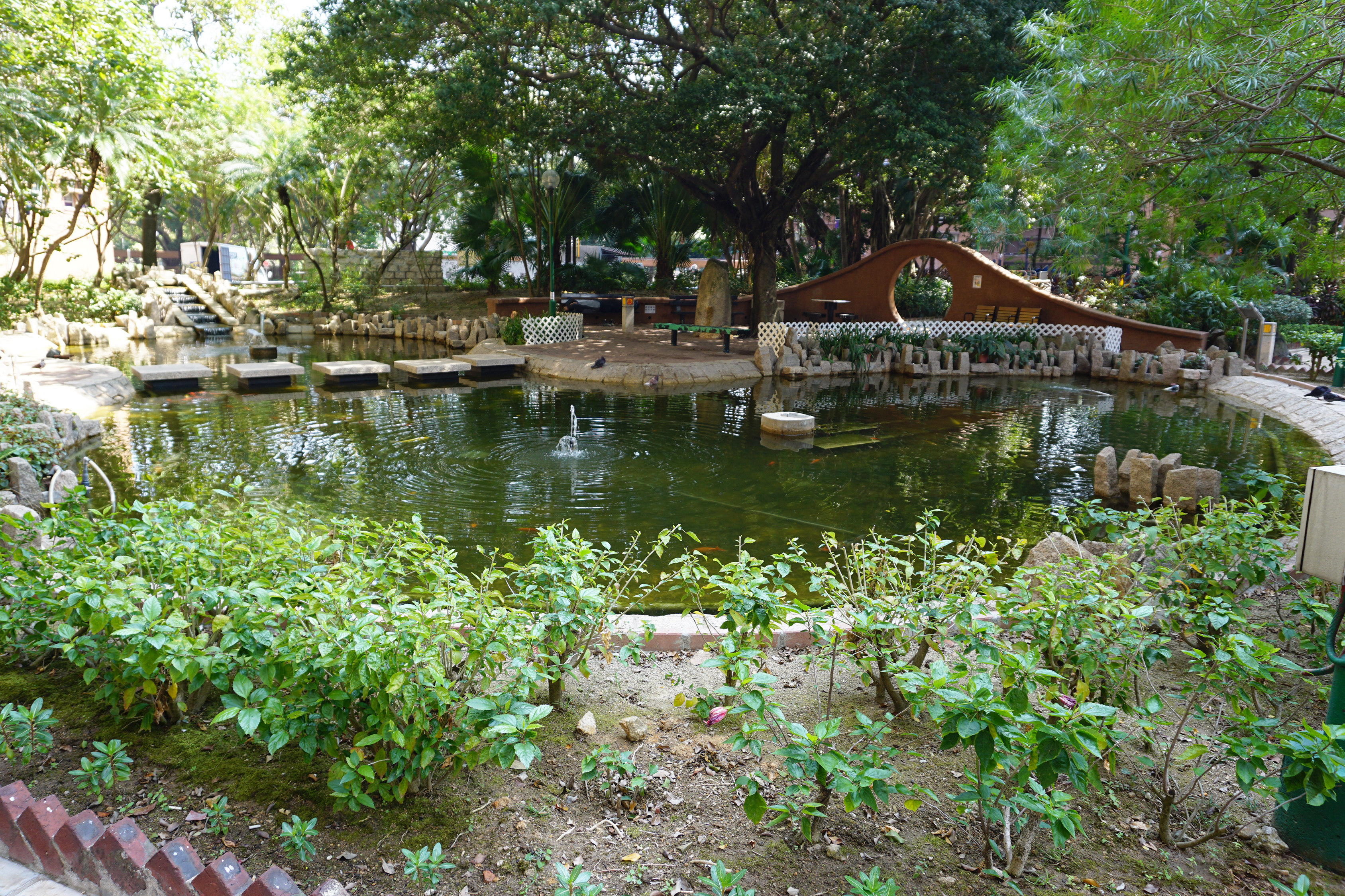 Siu Hong Court in Tuen Mun, Hong Kong.